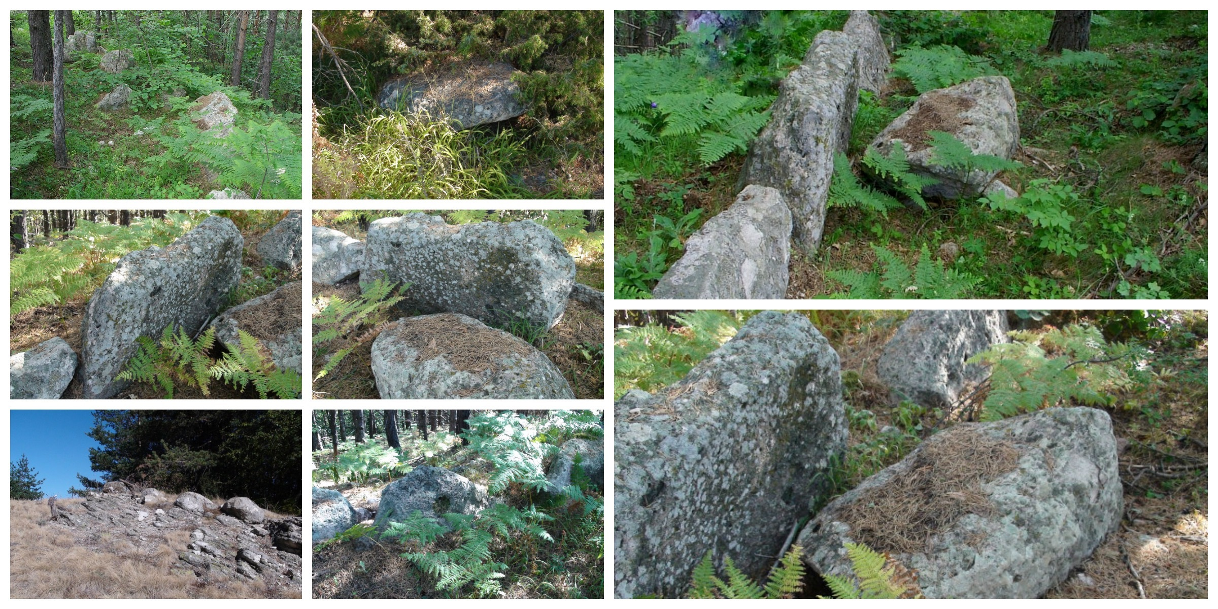 Turskata kulya cromlex Rhodopa Mountain Bulgaria